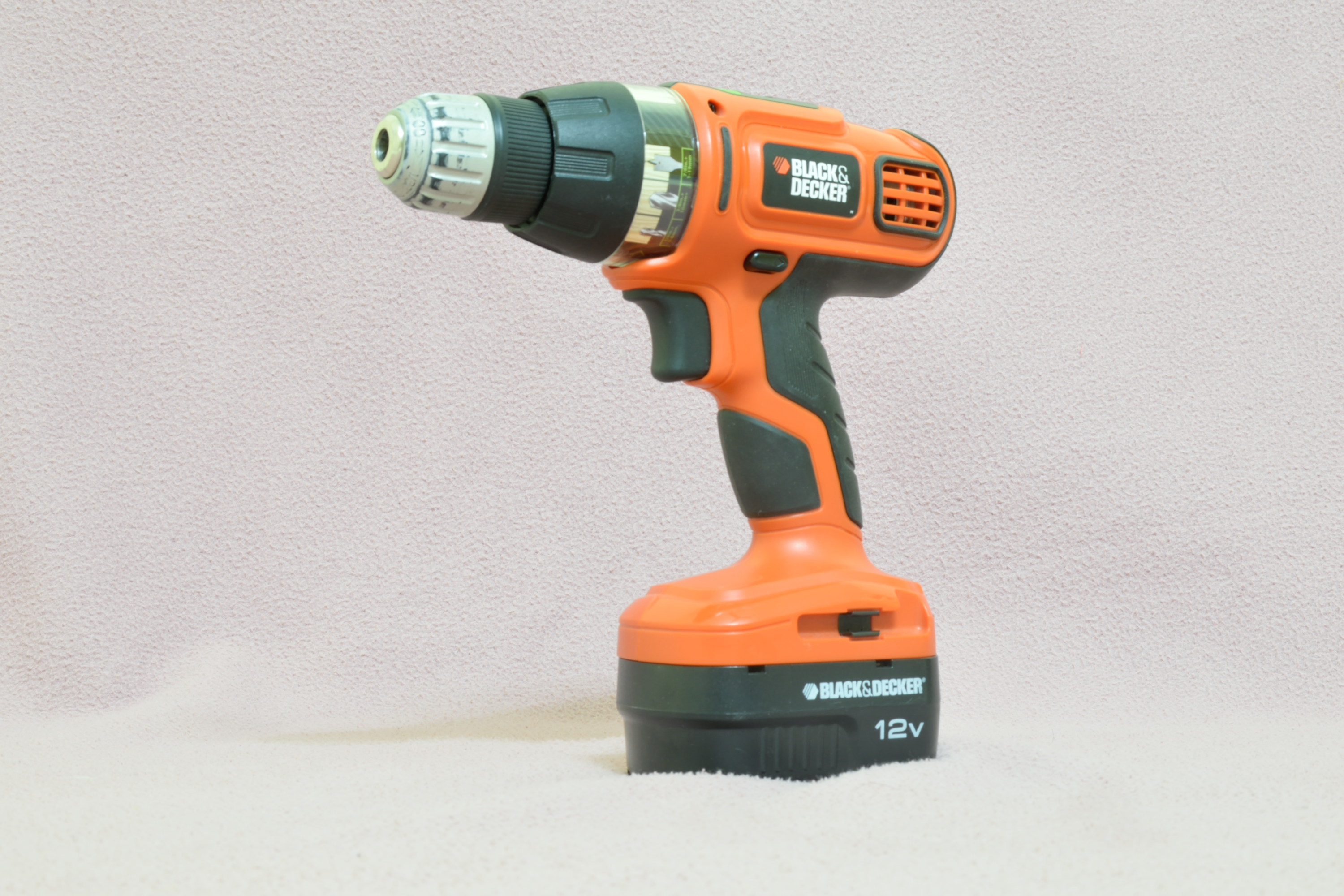 A Black and Decker drilling machine